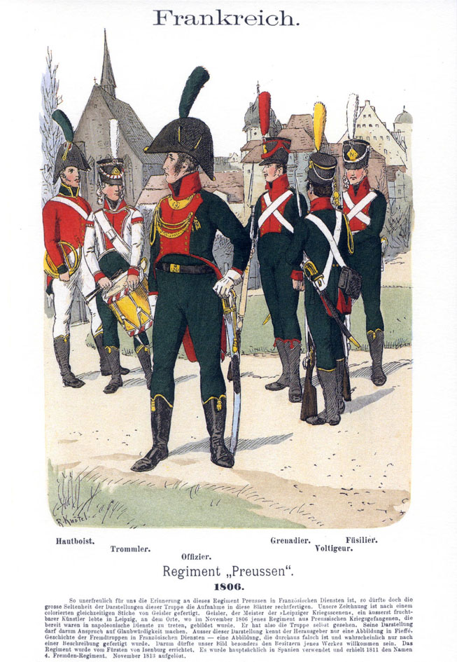 Frankreich. Regiment "Preussen". 1806